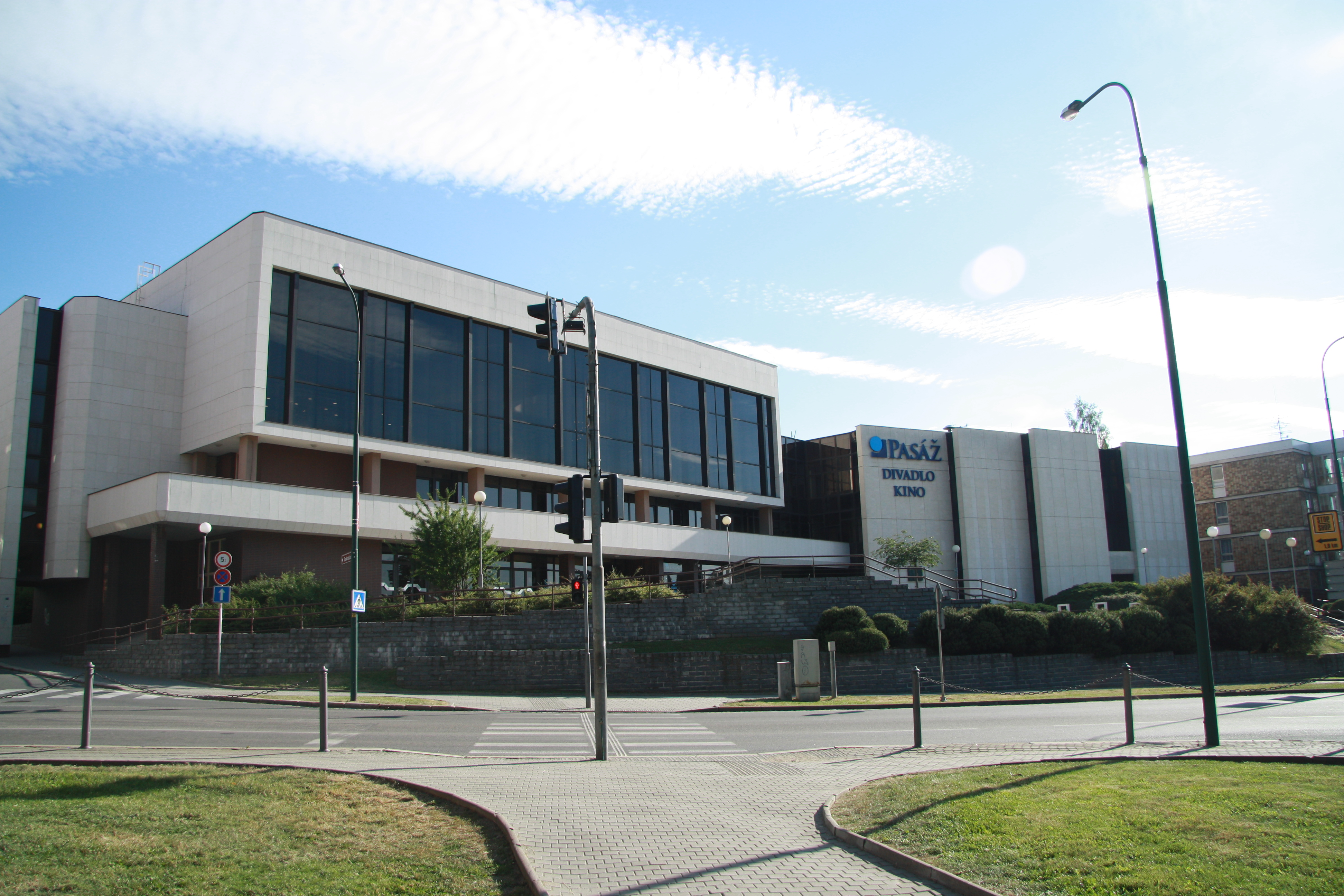 Pasáž Theatre in Třebíč, Třebíč District.